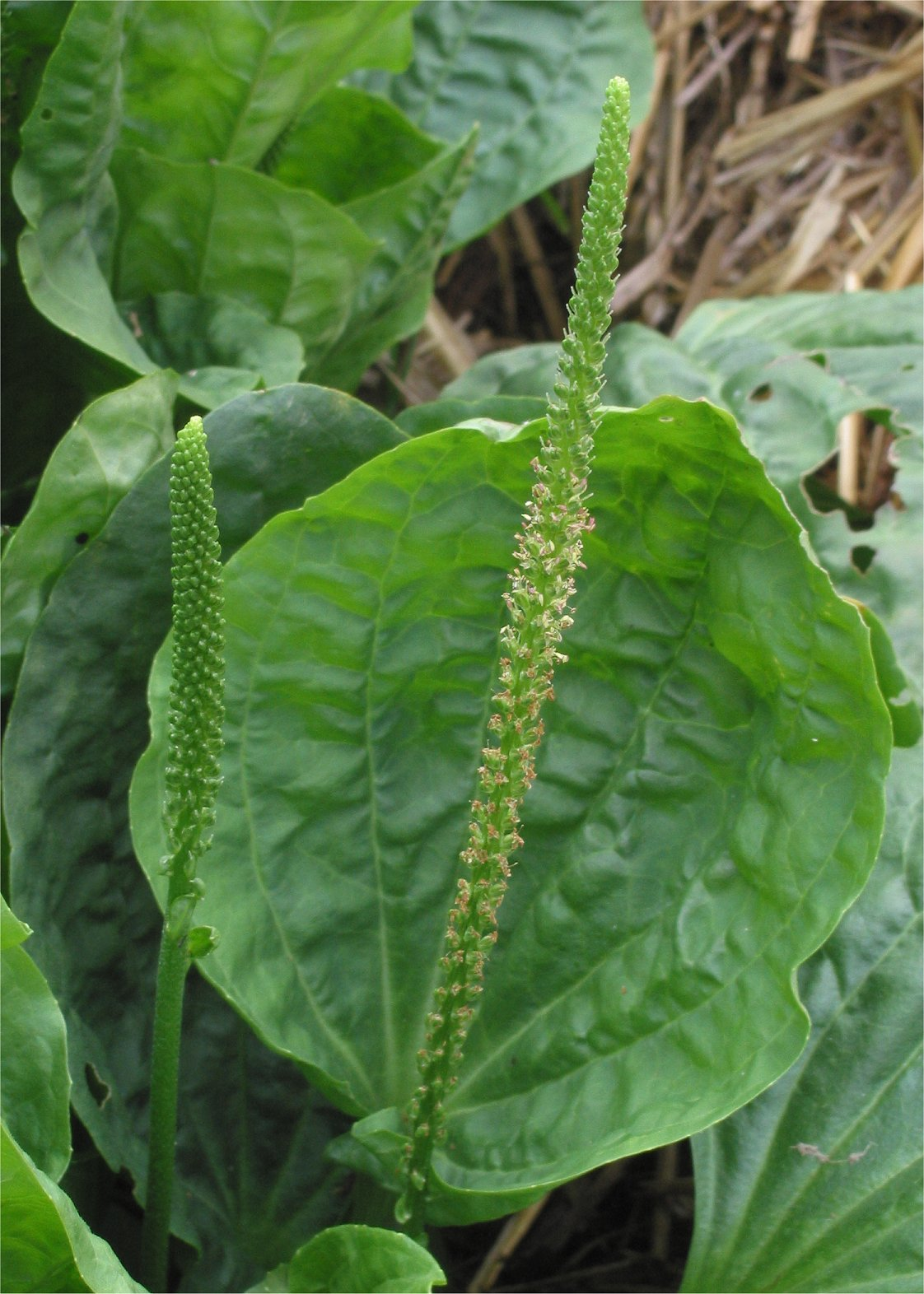 Broadleaf or greater plantain (Plantago major major)